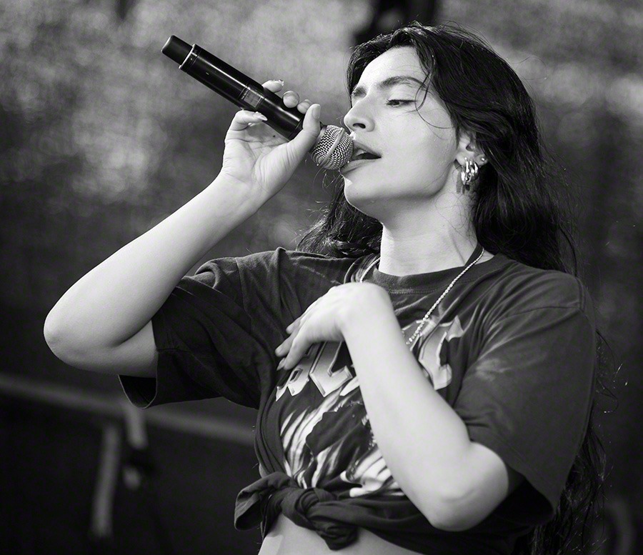 Sevdaliza performs at Piknik i Parken in Oslo on 25. June 2016.